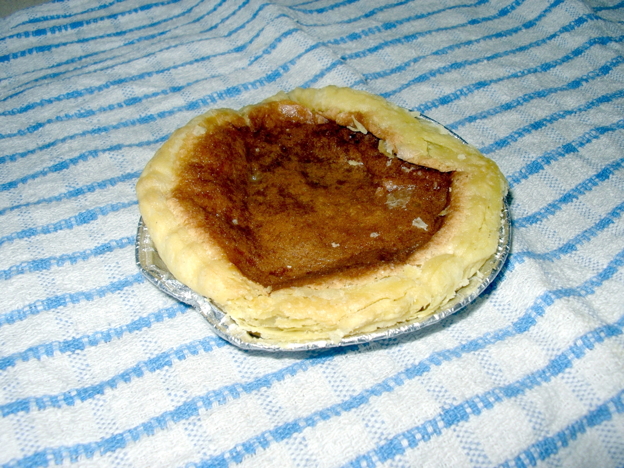 A Bakewell pudding, purchased in Bakewell.